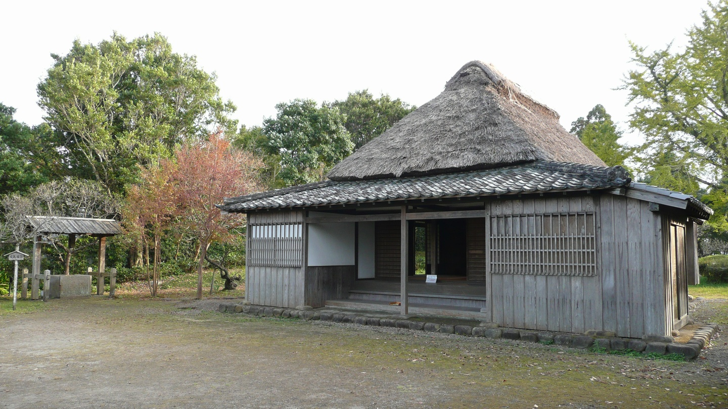 Yasui Sokken's Birthplace (Kiyotake Town, Miyazaki City, Japan)